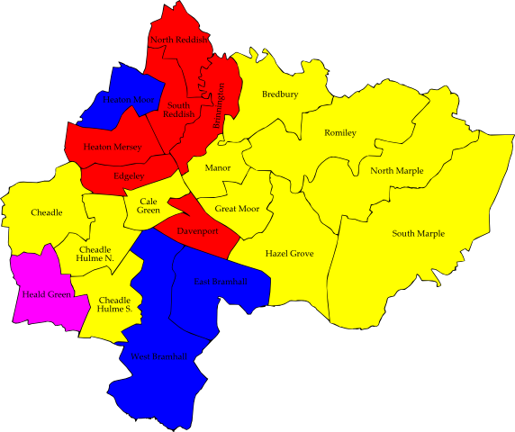 A map that shows each Stockport council ward result by ward in the 2002 local election with each ward colour signified by the party that won that particular ward.